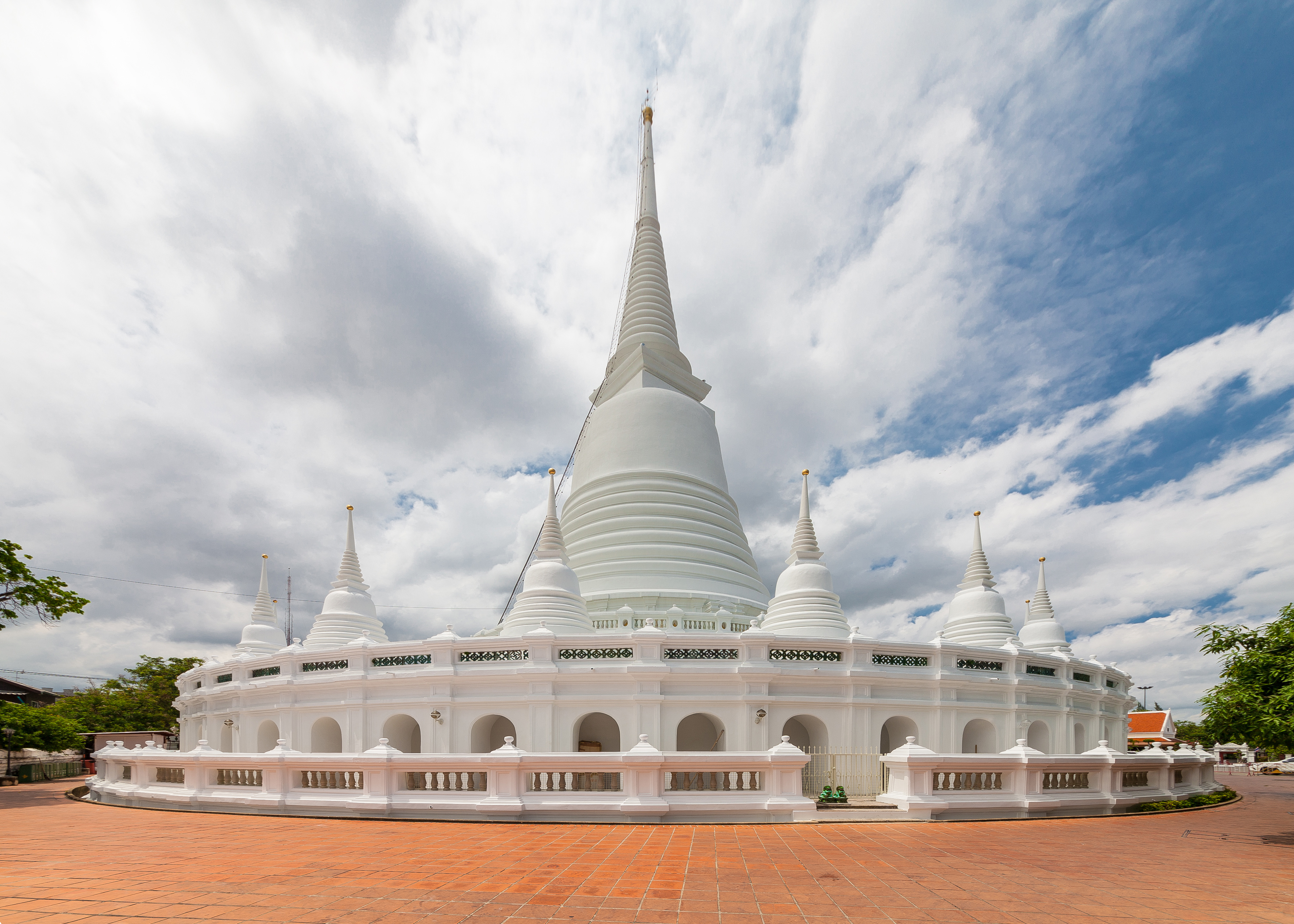 Chedi of Wat Prayurawongsawat at Wat Prayurawongsawat, Thonburi District, Bangkok.